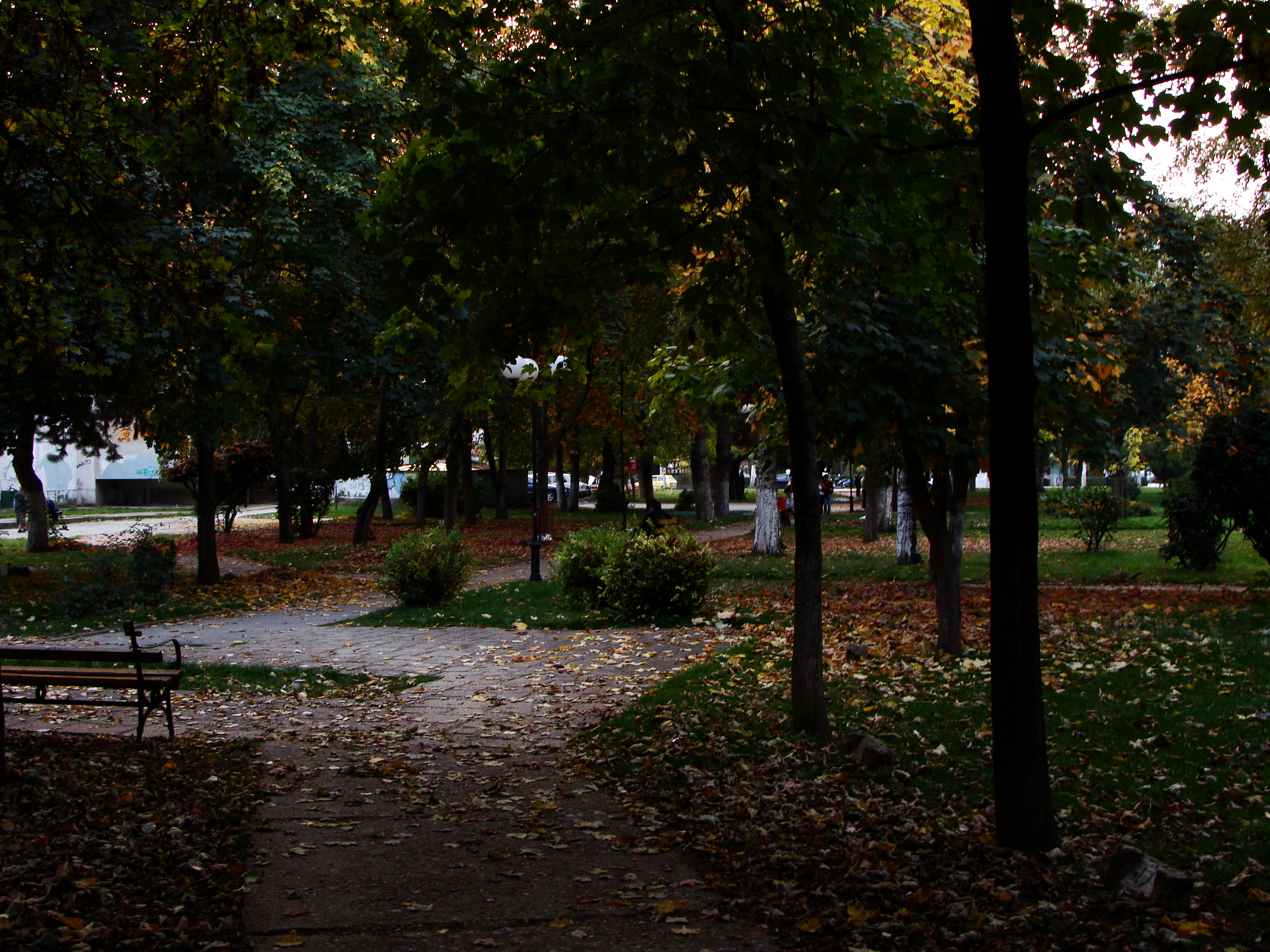 Struga, a town by the Ohrid lake. Park of poetry